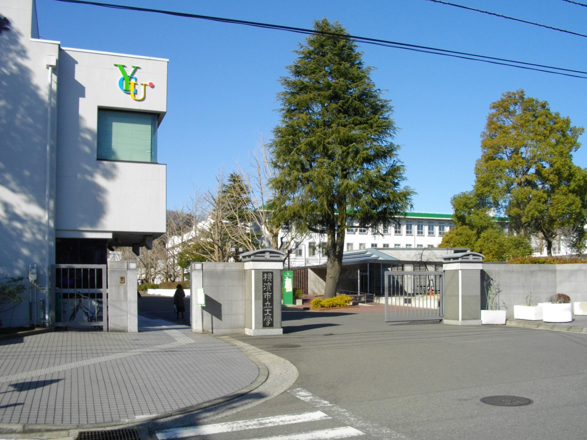 Yokohama City University Kanazawa-Hakkei Campus